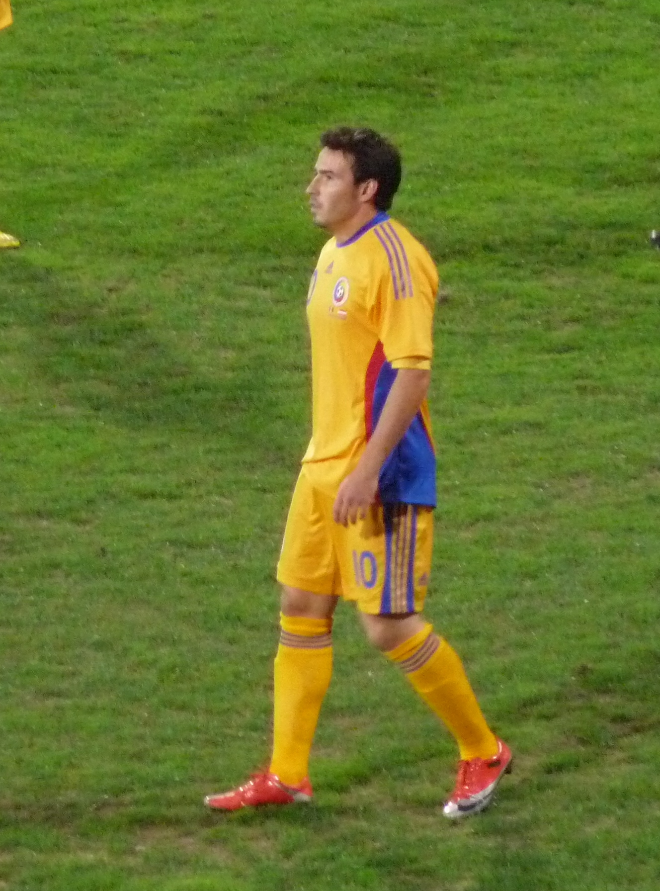 Adrian Cristea playing for the national football team of Romania against Austria on the Steaua stadium in Bucharest